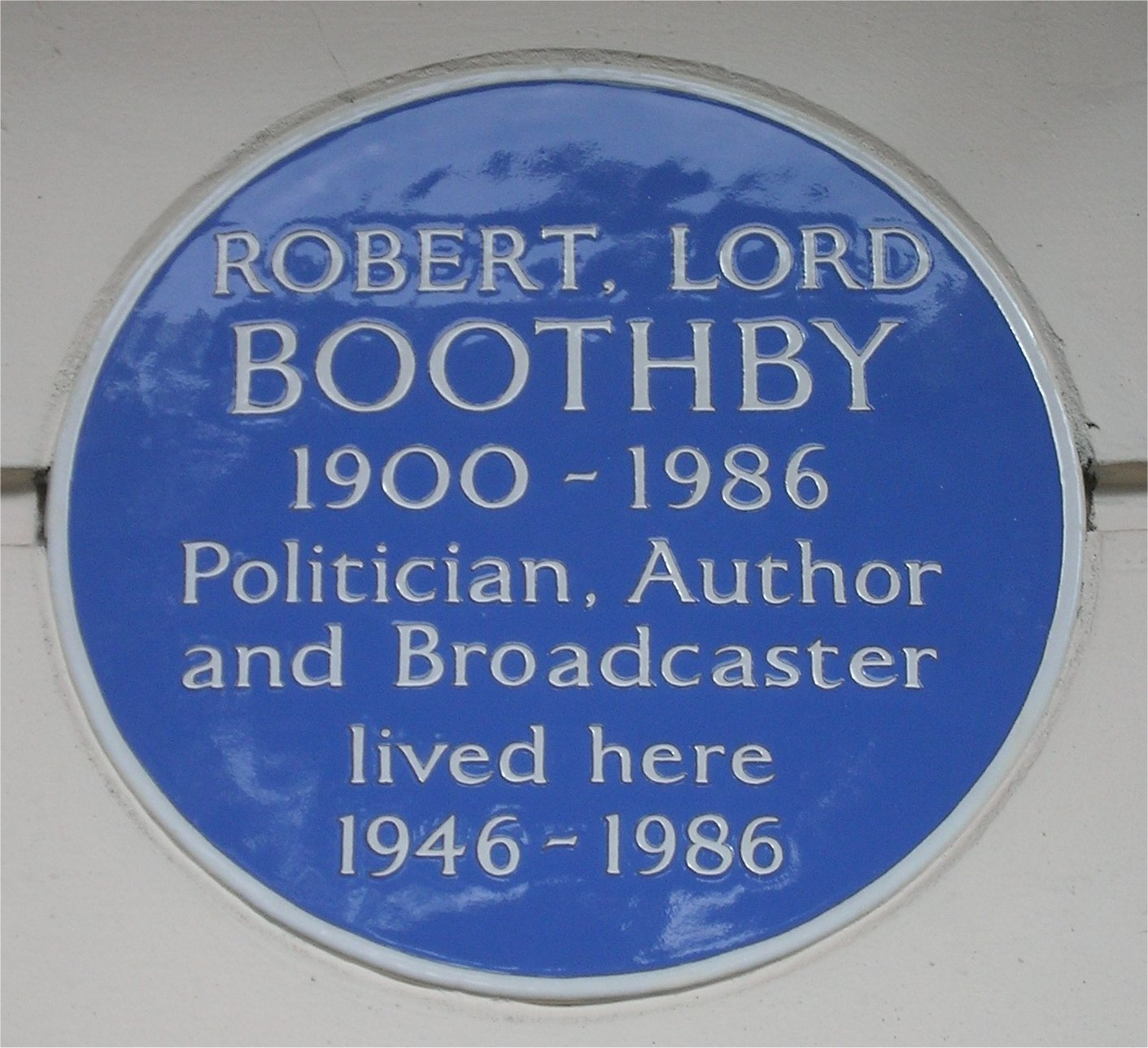 Blue plaque to Robert Boothby on his house in Eaton Square, London, England. Photographed by me 29 September 2006. Oosoom